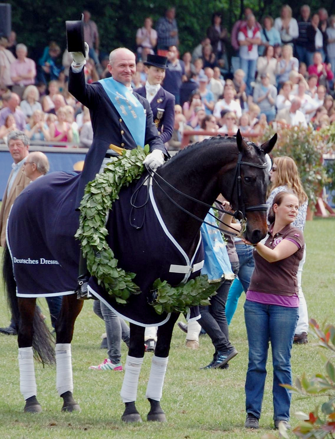 Hubertus Schmidt, Winner of the "Blue Riband" for the Victory in the 54th German dressage derby, a dressage competition with a horse change. Hamburg 2012.